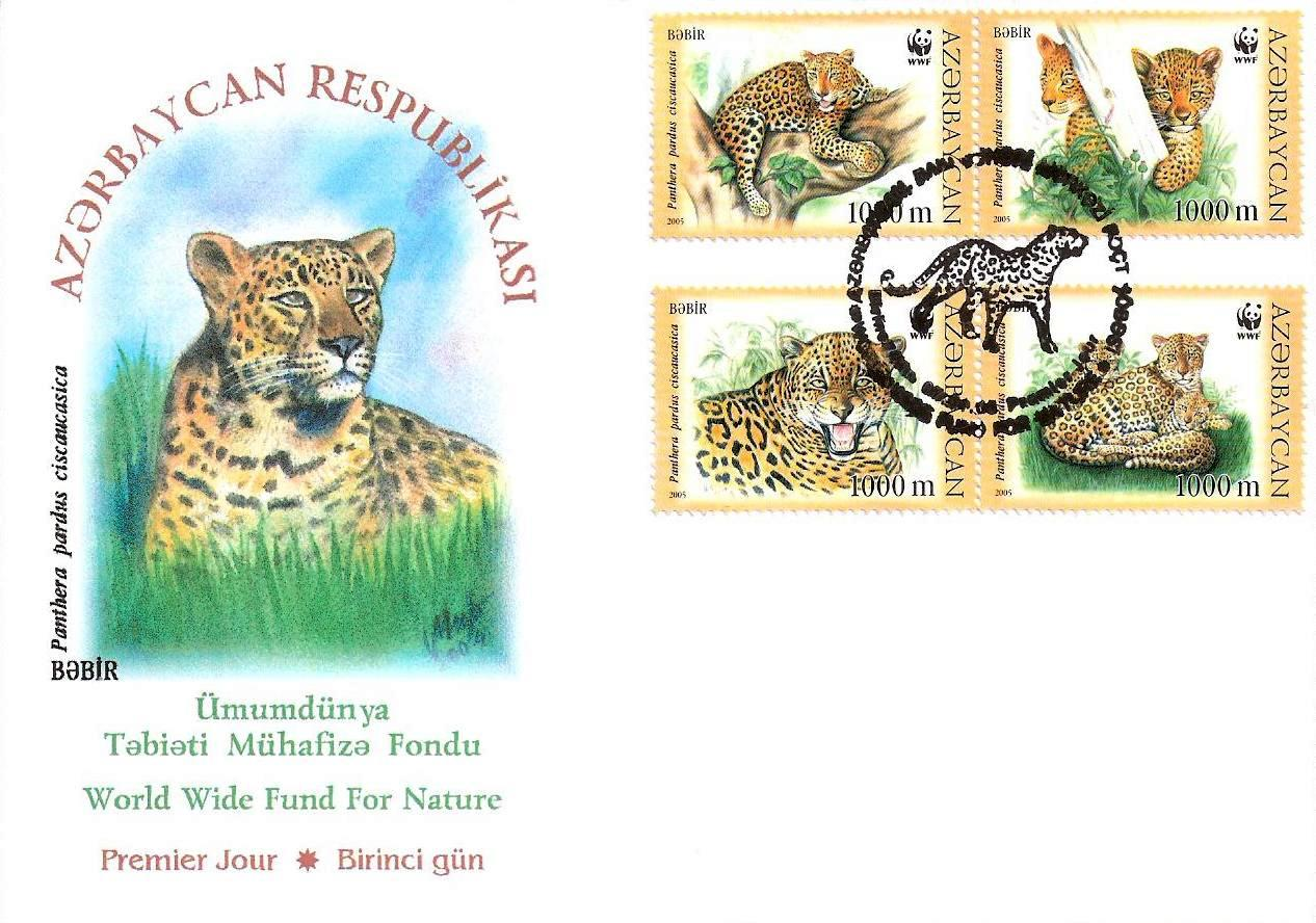 local FDC with 2005 WWF stamps (Caucasus leopard - Panthera pardus ciscaucasica)